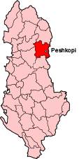 District Dibër of Albania